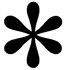 the Asterisk character, rendered in Times New Roman font